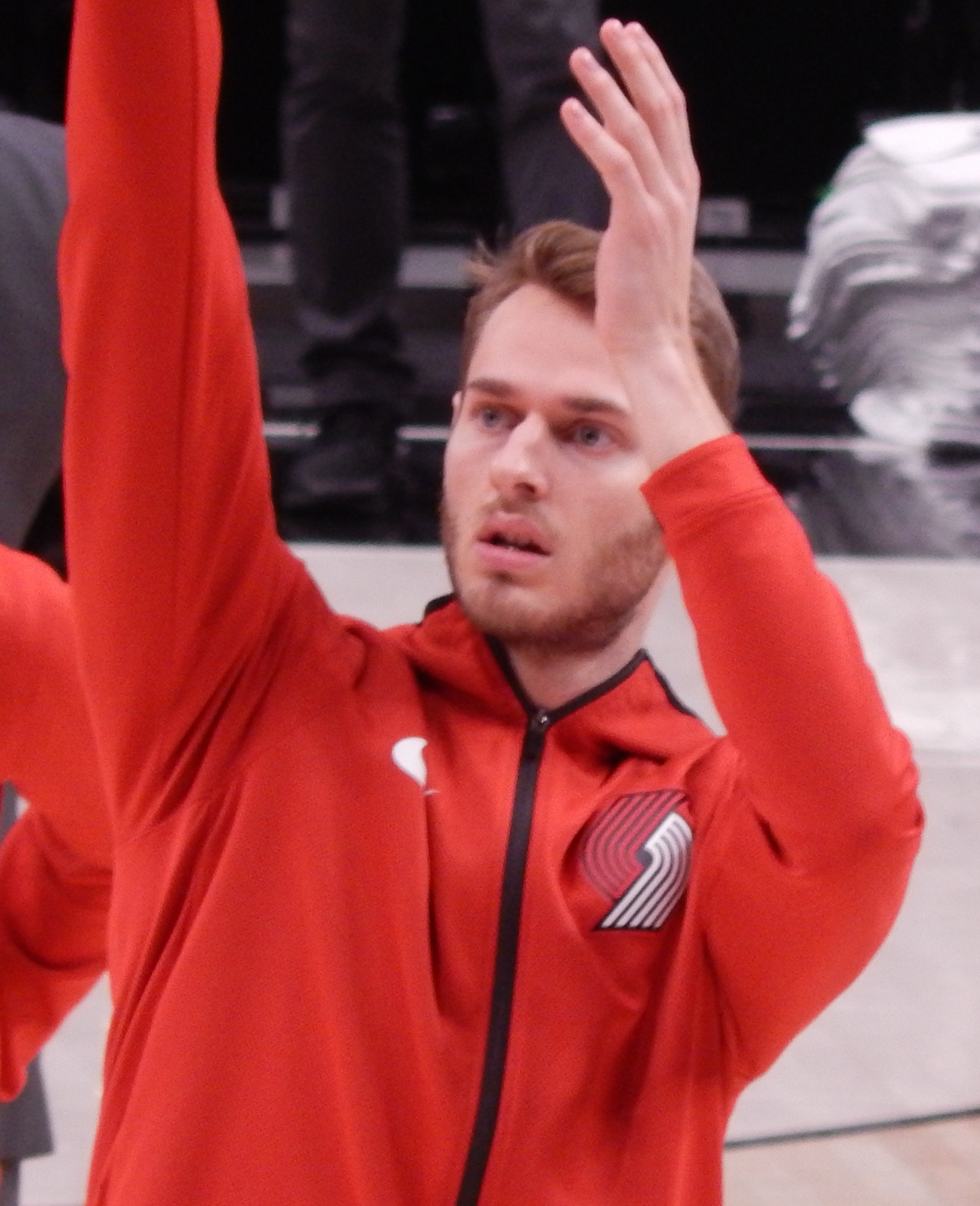 Jake Layman #10 of the Portland Trail Blazers shoots during pregame warmups against the Cleveland Cavaliers on January 16, 2019 at Moda Center in Portland, Oregon.